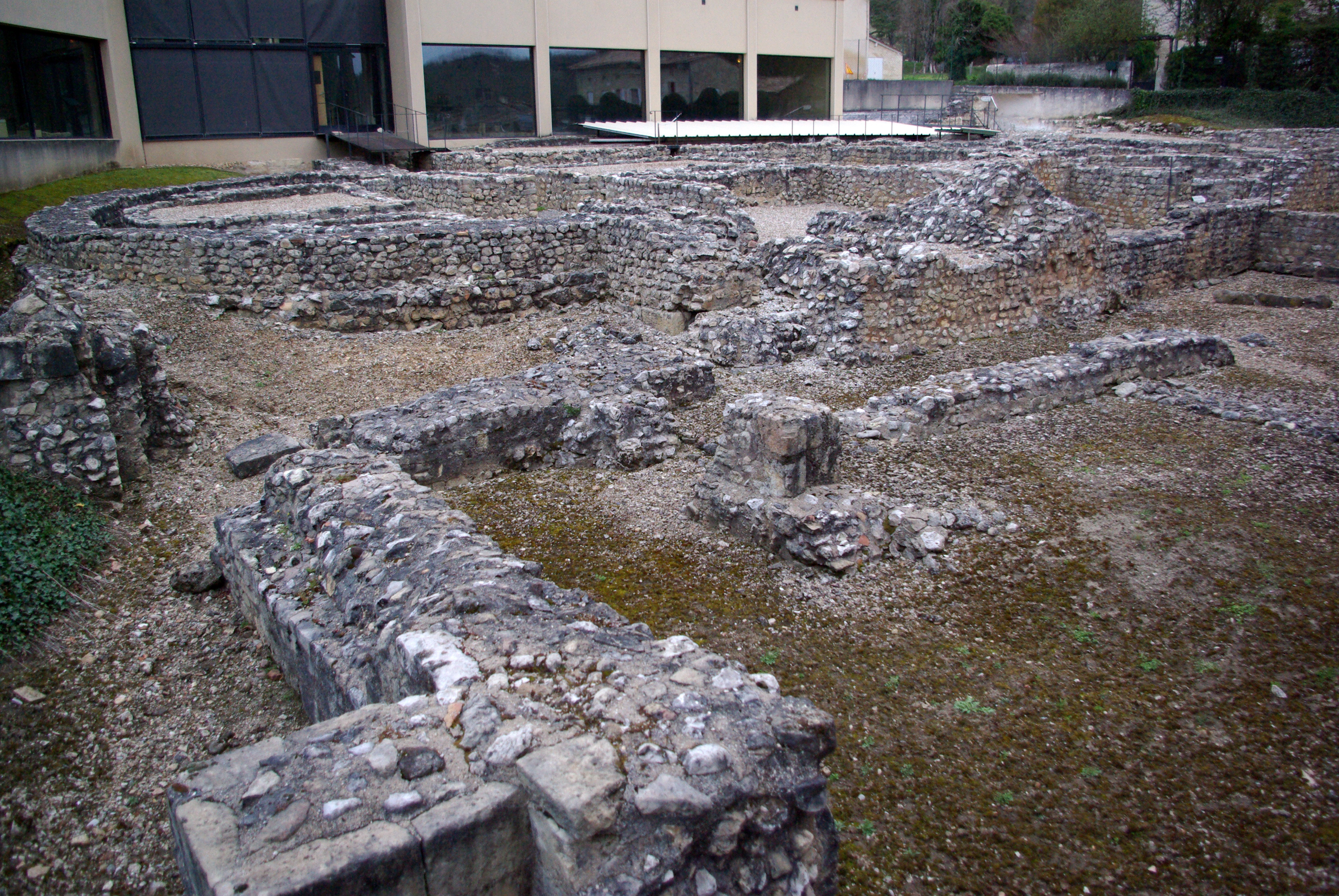 Gallo-Roman ruins in Montcaret (Gironde, France). National Heritage Site of France.